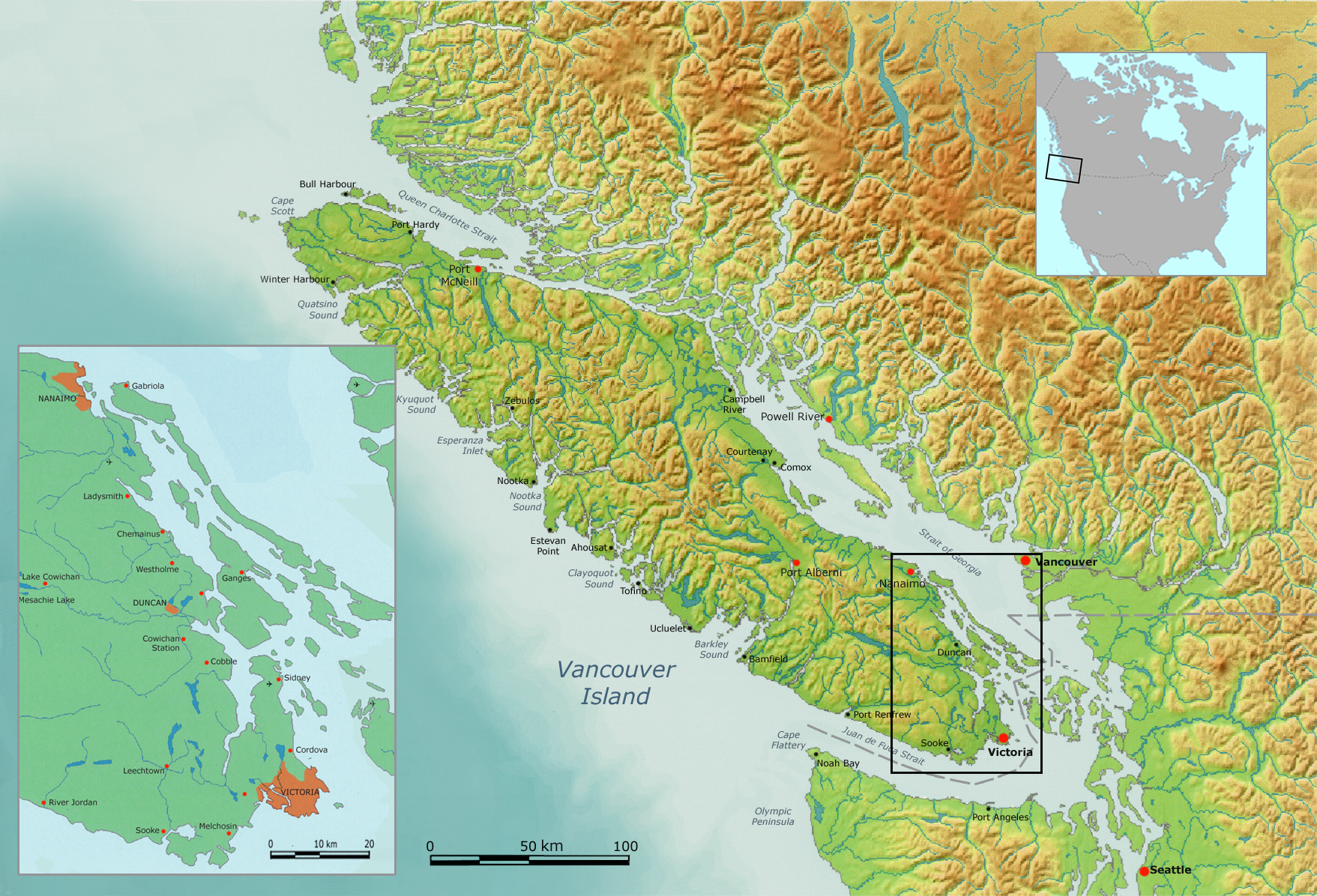 Map of South Vancouver Island.